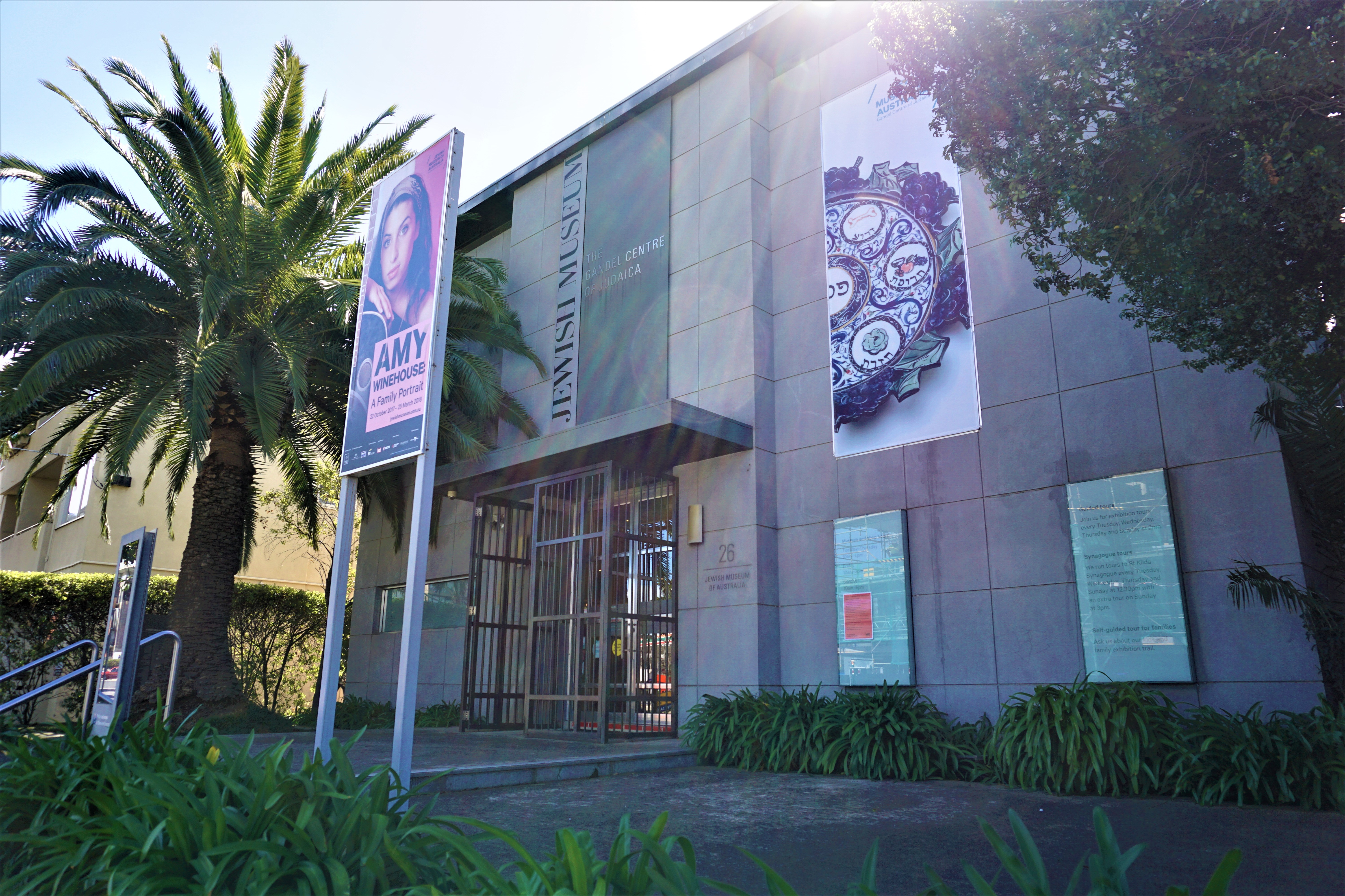 Jewish Museum of Australia - - exterior 2